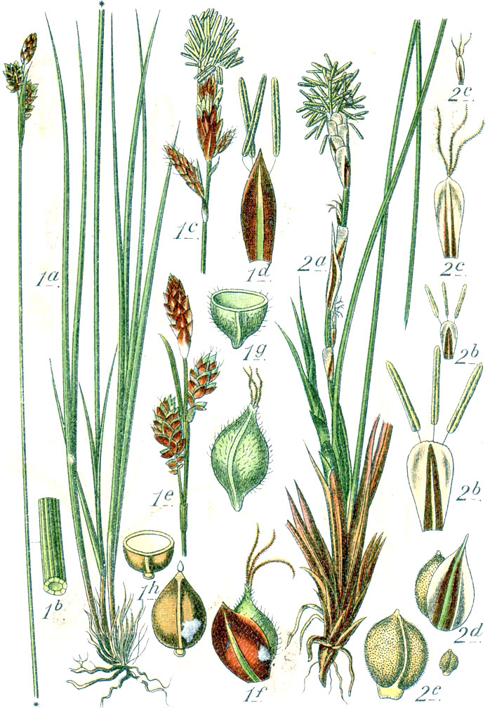 1. Carex umbrosa Host 2. Carex humilis Leyss. Original Caption 1. Schatten-Segge, Carex umbrosa 2. Erd-Segge, C. humilis